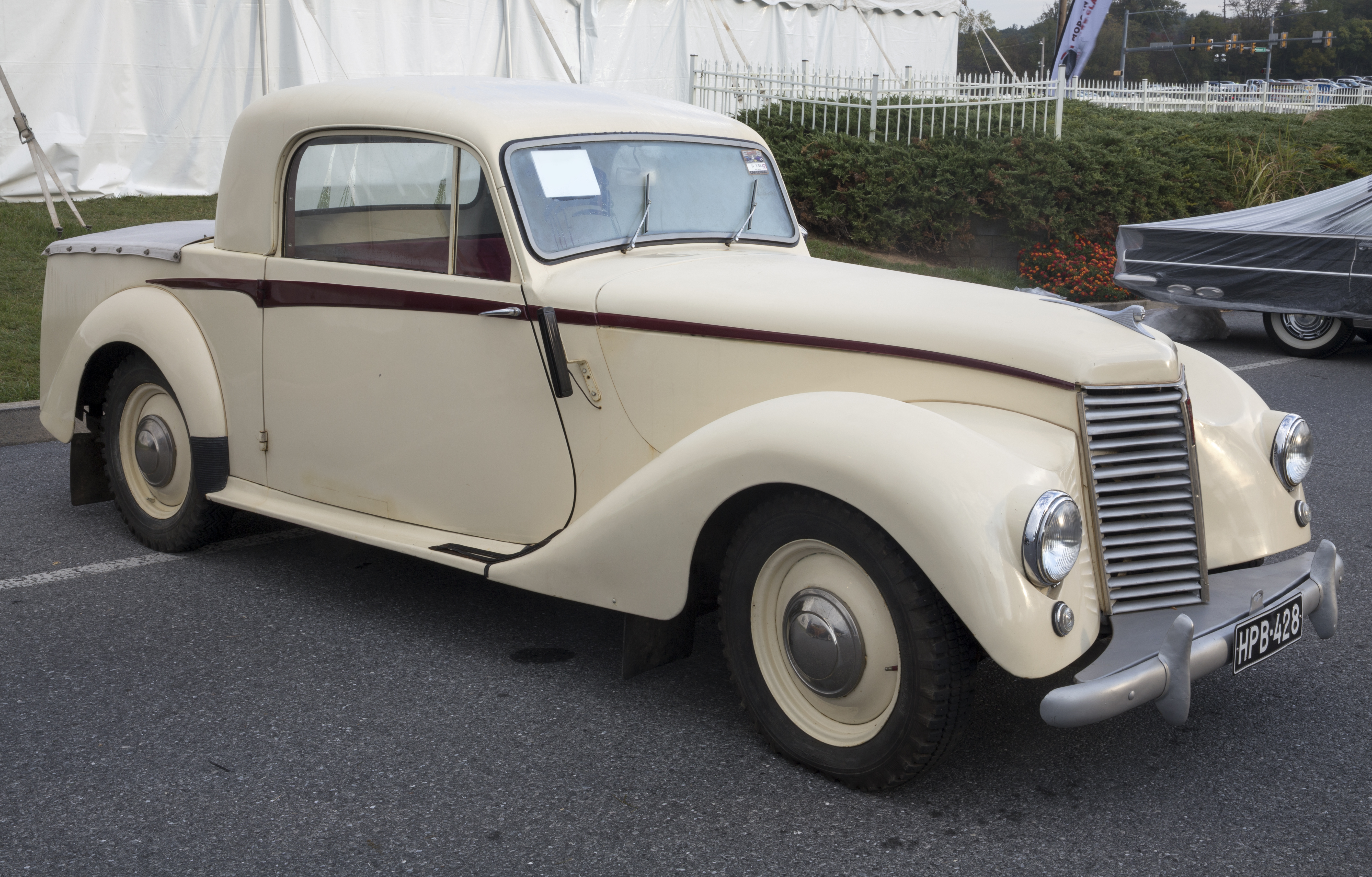 A 1952 (1951? according to the seller) Armstrong Siddeley Station Coupé offered for sale at Hershey 2019. LHD!!! In Finland since April 1952, sold to the Netherlands in 2007, was offered in the UK about ten years later. Only 990 Station Coupés were built, with the lion's share going to the Antipodes. This LHD example is most likely unique.